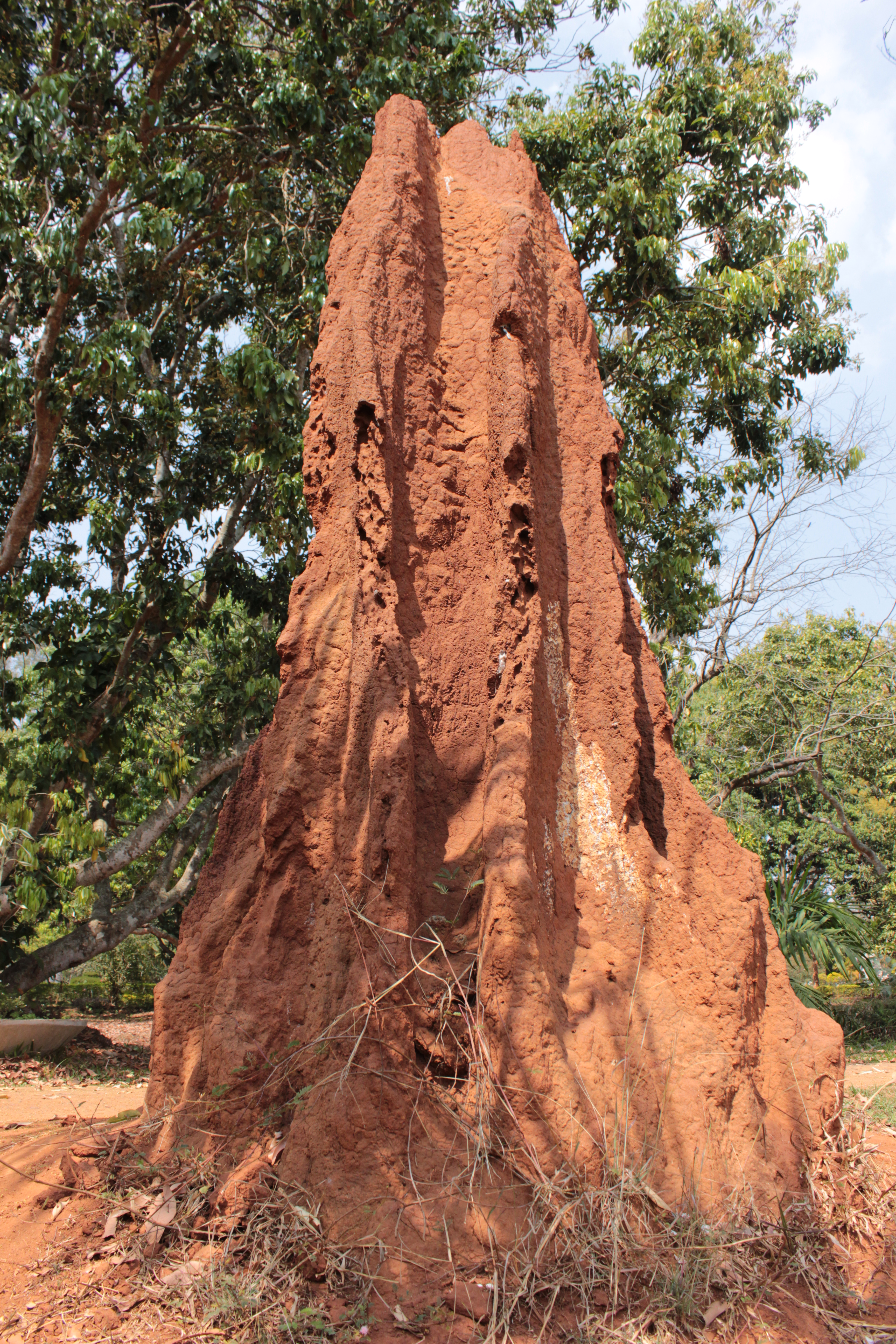 Beautiful Termite nest in Araku,Andhra Pradesh